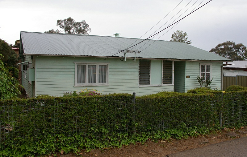 Shows one of the still extant Grantham soldiers settlement houses